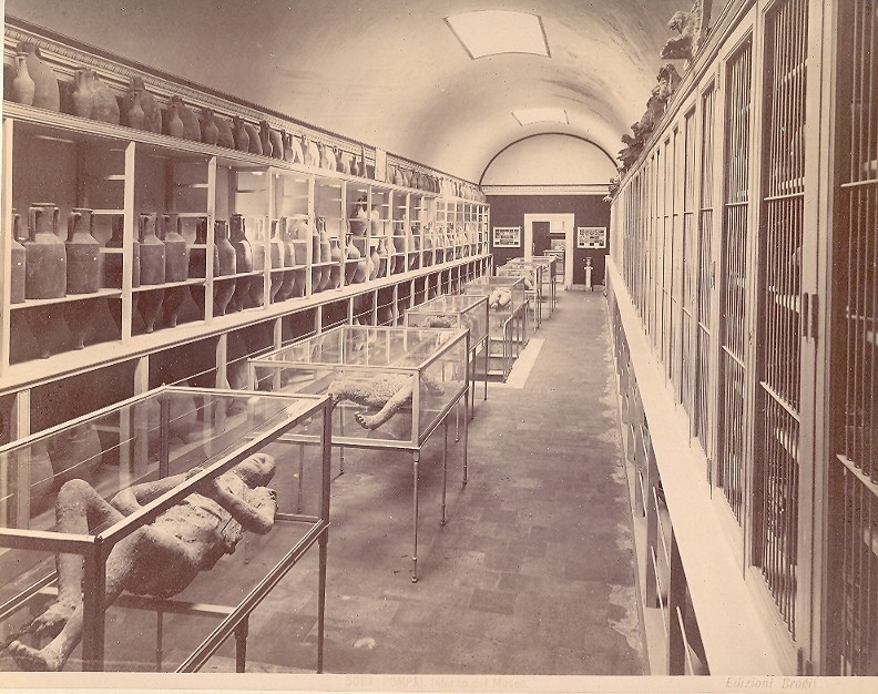 Giacomo Brogi (1822-1881) - "Pompeii - Interior of the museum". Catalogue # 5081.